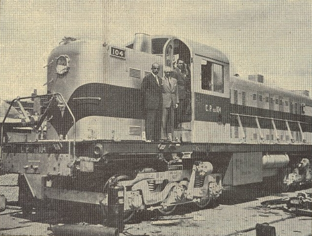 Locomotive 104 of Companhia dos Caminhos de Ferro Portugueses (Portuguese Railways Company), after being disembarked at the Lisbon docks, in Portugal, on September 11th 1948. This image was published on the Gazeta dos Caminhos de Ferro magazine no. 1460, of the 16th October 1948, and scanned by the Hemeroteca Municipal de Lisboa.